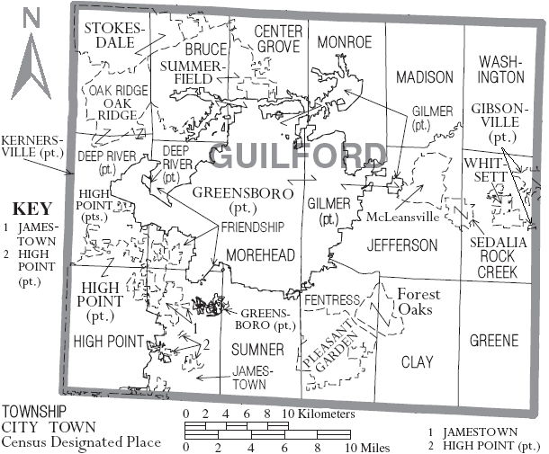 Map of Guilford County, North Carolina, United States with township and municipal boundaries